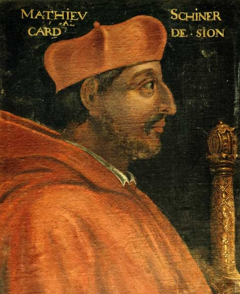 Portrait of Mathieu Schiner (c.1465-1522)